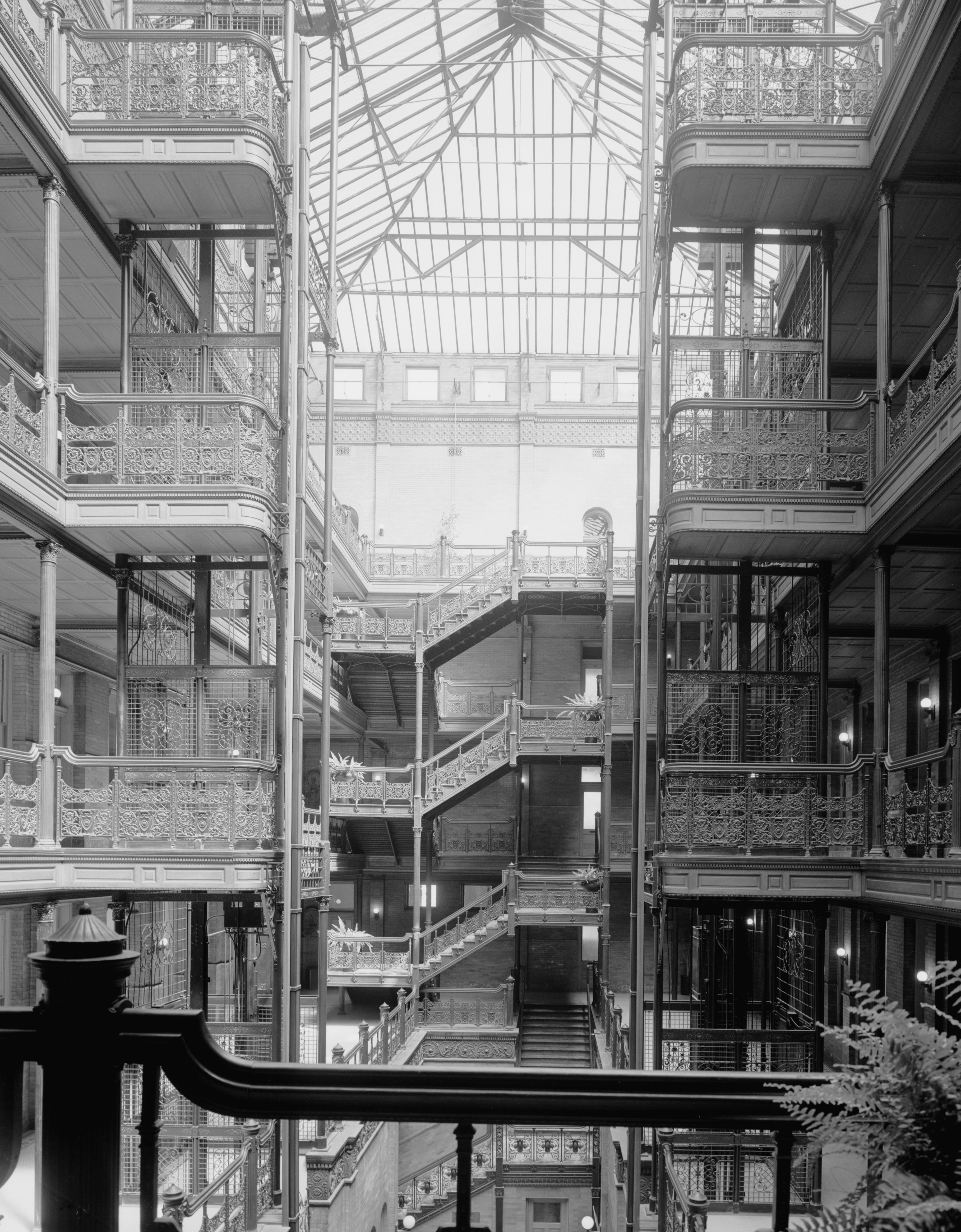 Central court, general view. Staircases and atrium interior of the Bradbury Building, Downtown Los Angeles. Courtesy of the Historic American Buildings Survey, Library of Congress, Washington, D. C.